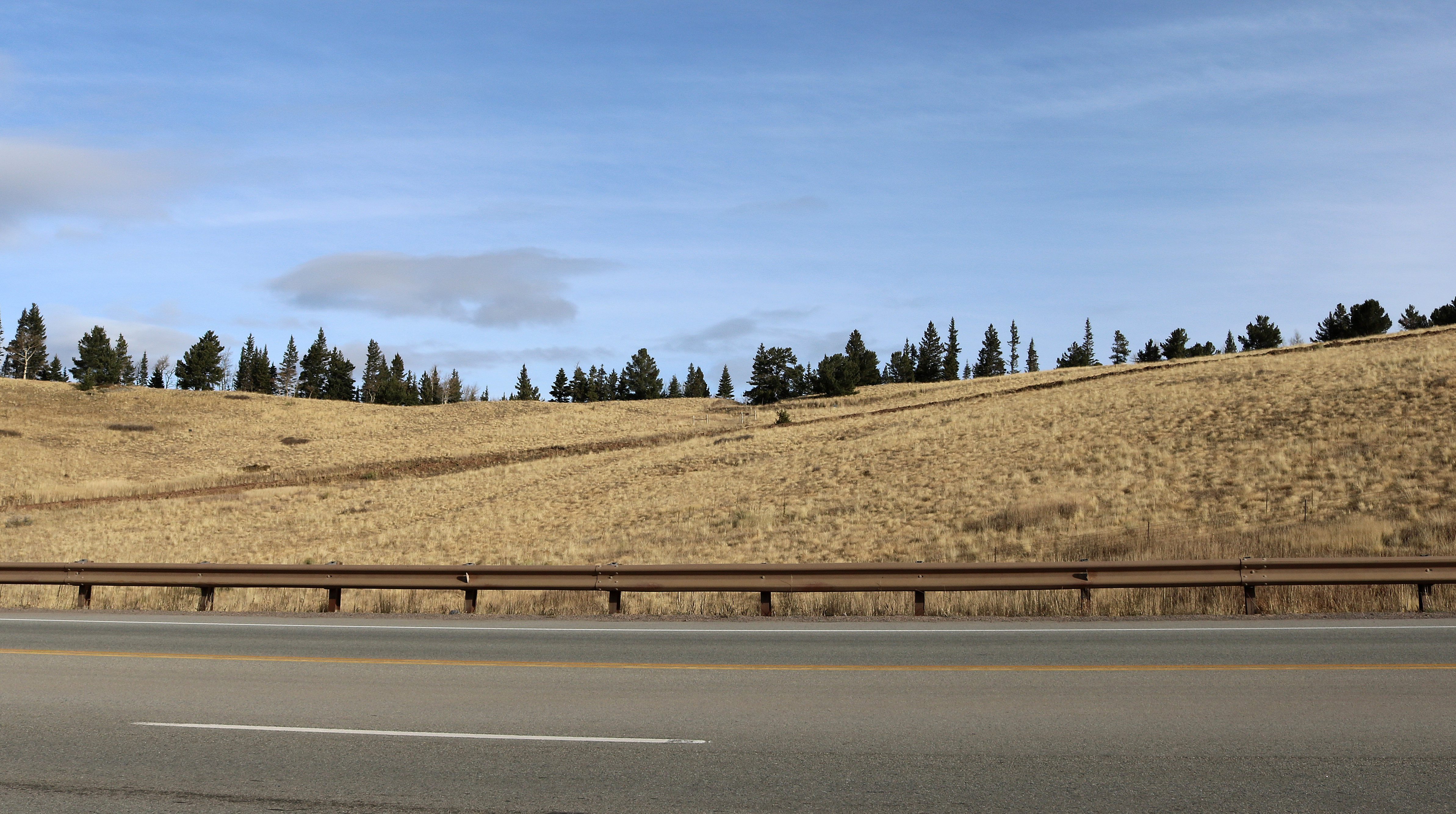 A view of Sangre de Cristo Pass in southern Colorado. The view is from U.S. Highway 160 just west of La Veta Pass. In this picture, the pass is a dirt road crossing the mountain in the center of the picture.